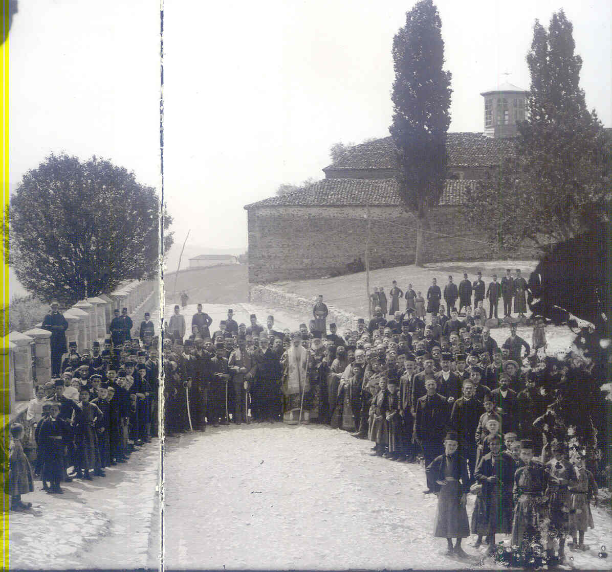 The High School and Church Saint Dimitrios in Siatista Greece